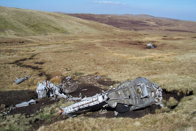 British European Airways Vickers Viking G-AIVE Remains This airliner crashed on 21 April 1948, with all aboard (16 passengers and 4 crew) surviving the impact and subsequent fire. Dougie Martindale and myself are midway through writing a book on the incident, and we have traced many relatives of those on board and spoke with the First Officer. Further details of the project can be found by looking at my profile.